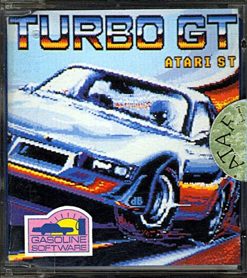 Picture of the video game Turbo GT packaging box created by Christophe Andreani for the Atari ST computer and published by Ere Informatique in 1986.